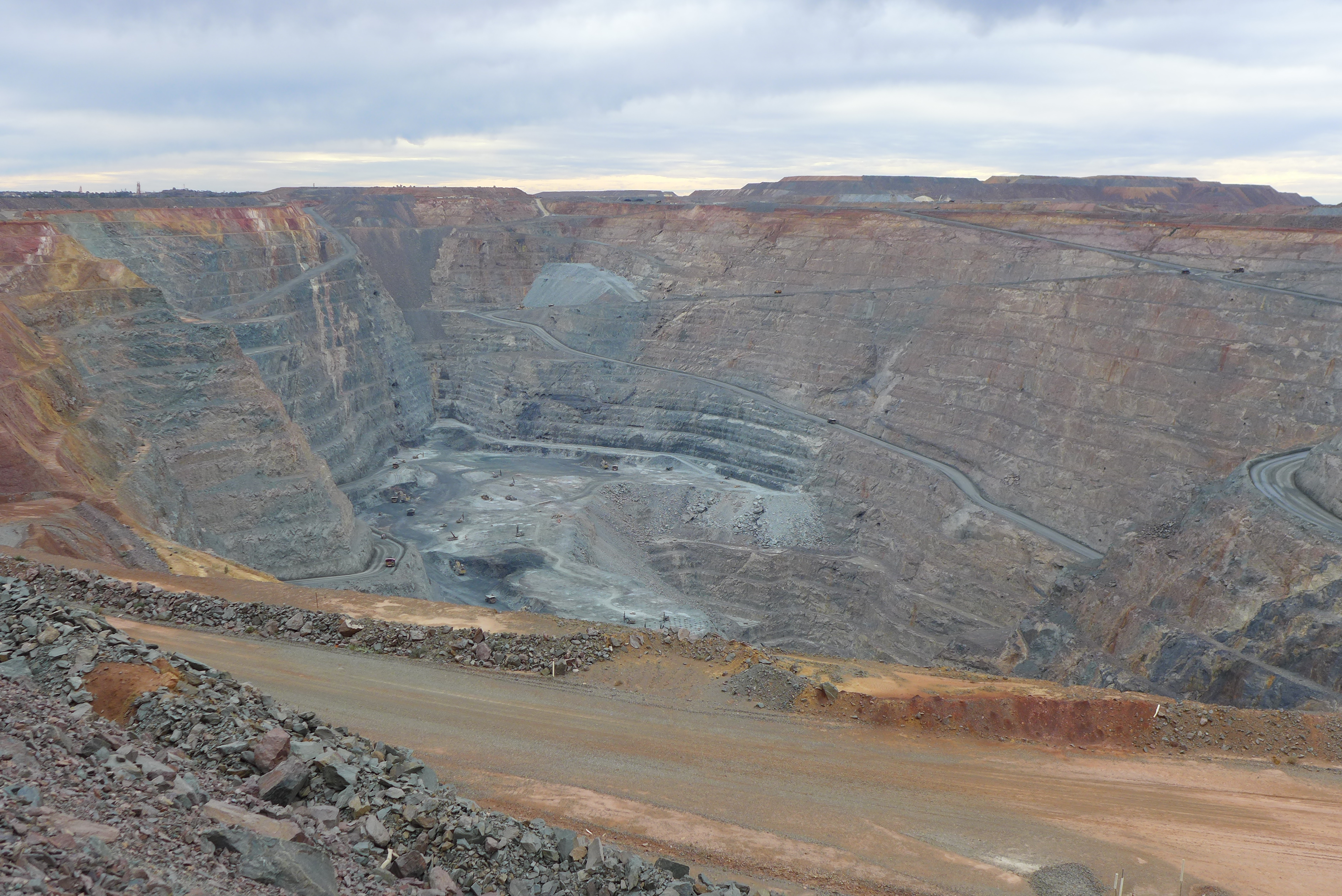 General view of the Super Pit gold mine from the public lookout, Boulder, Western Australia.